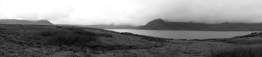 A black and white panoramic photograph of a lake in the Andes Mountains ( photographed two hour drive outside of Quito.)